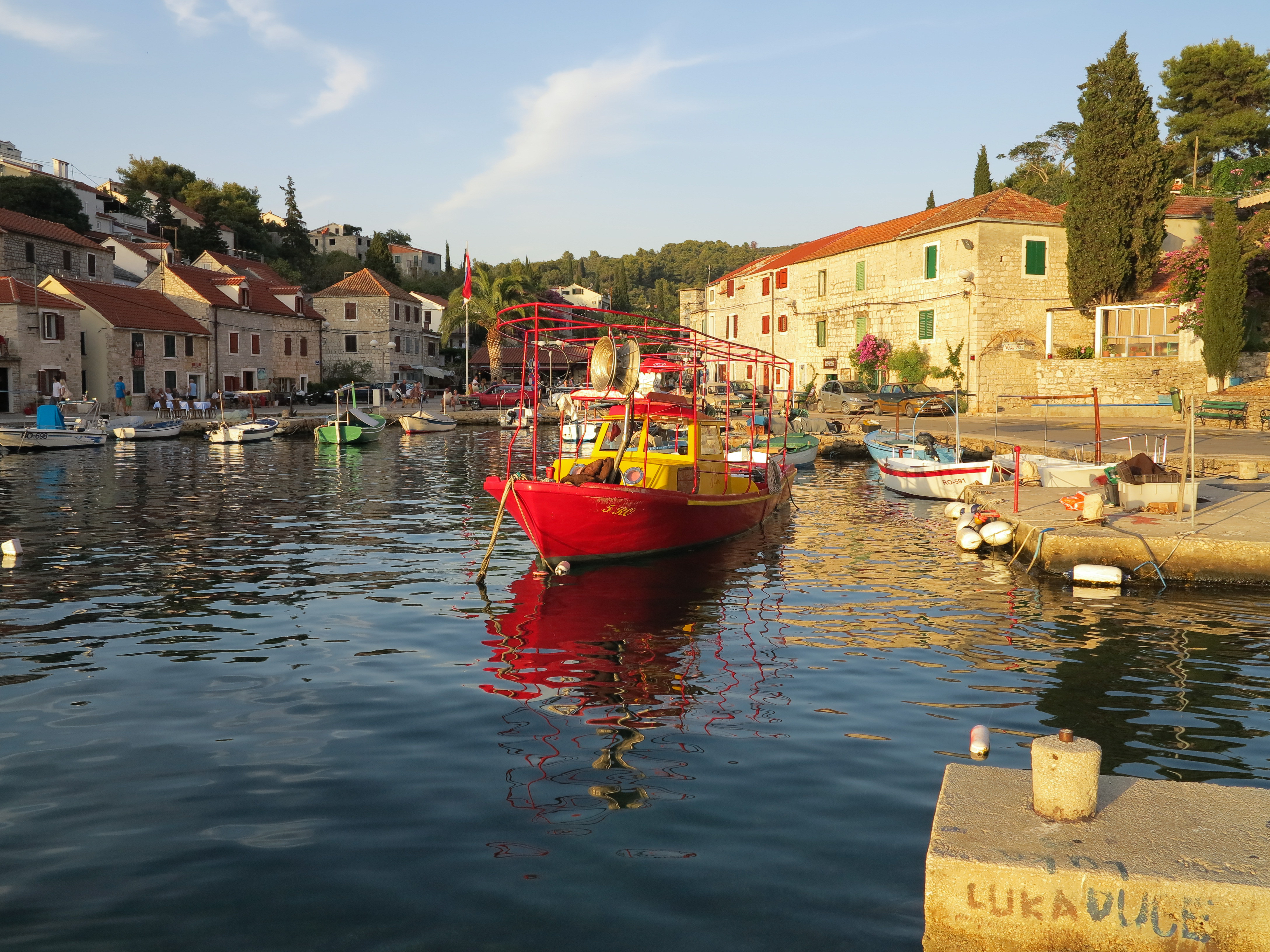 The Port of Maslinica on the island Šolta / Croatia / Adriatic Sea. Atmosphere at sunset, looking towards the northeast. At the pier is a fishing boat. In the background the north and south shores of the bay. The old date palm is still standing at the end of the bay in 2012.